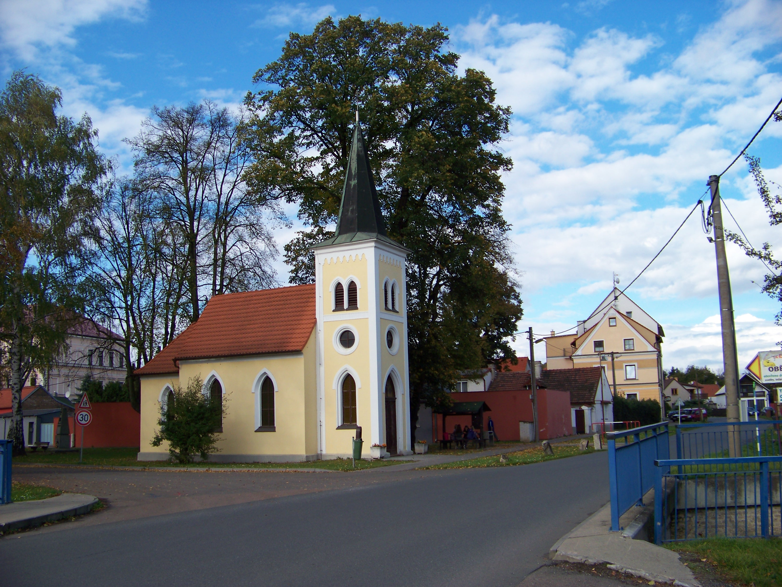 Nučice, Prague-West District, Central Bohemian Region, Czech Republic. Pražská street, Saint Procopius chapel.